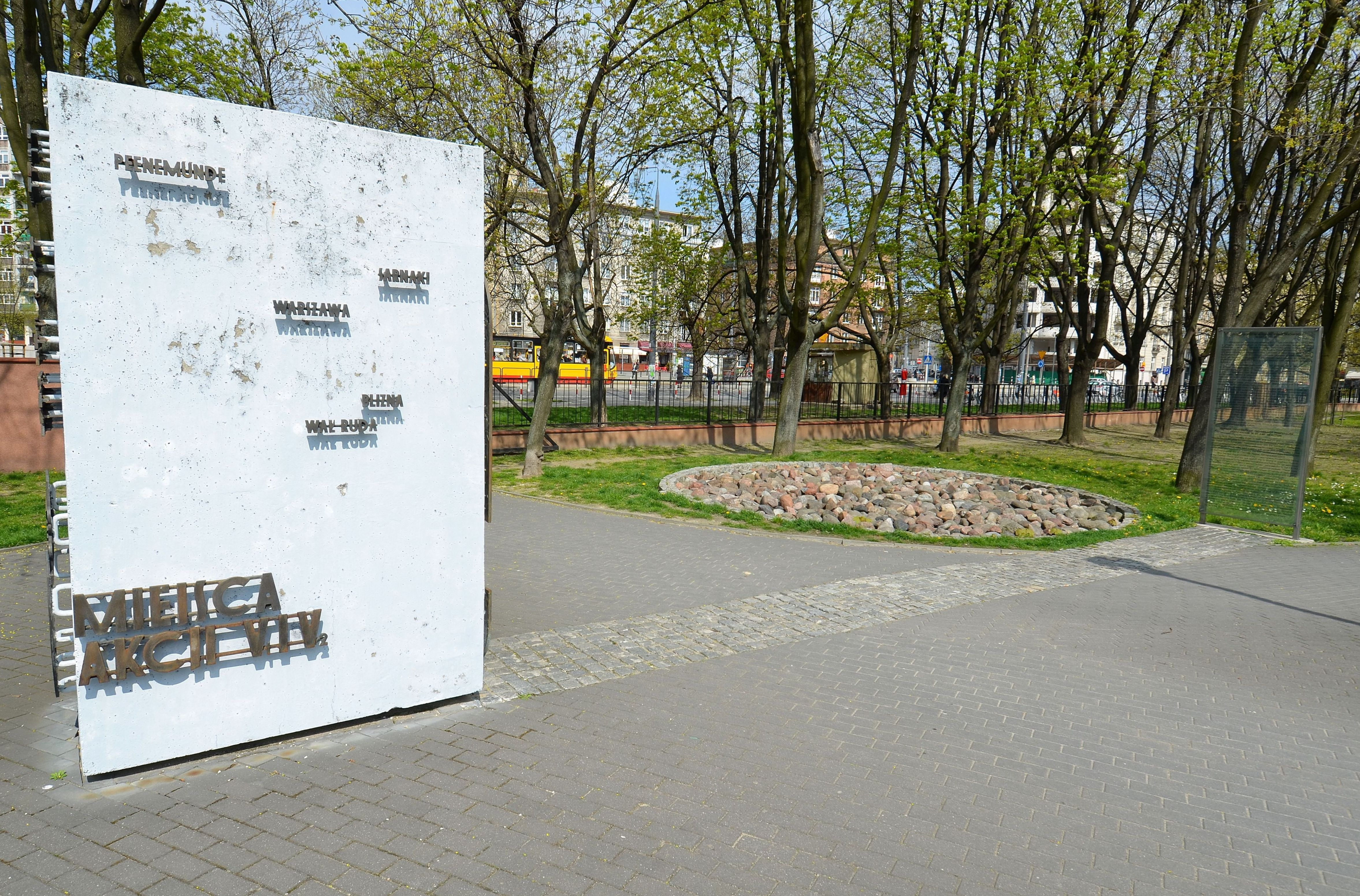 Operation V1 & V2 monument in Warsaw